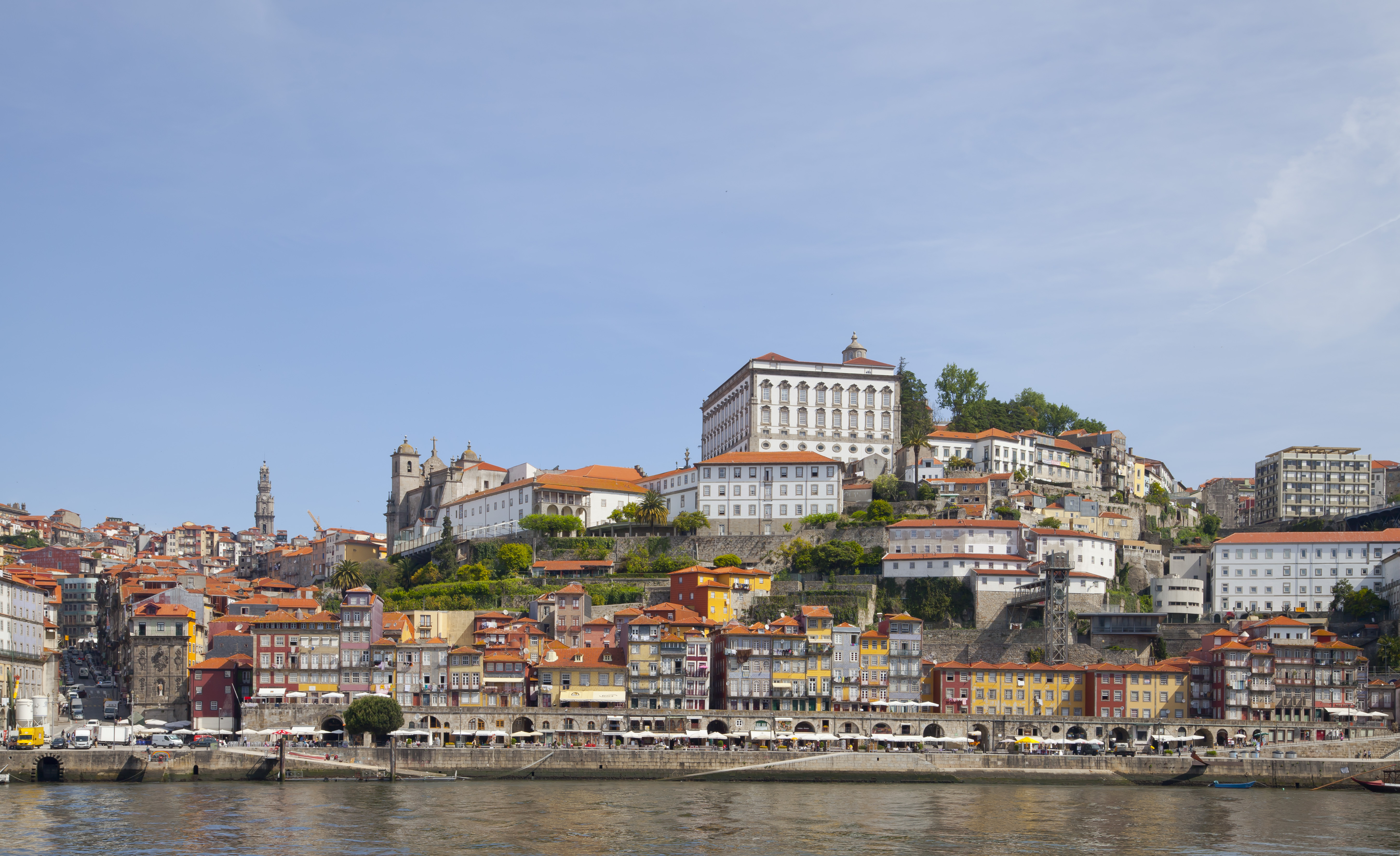 Cais da Ribeira, Porto, Portugal